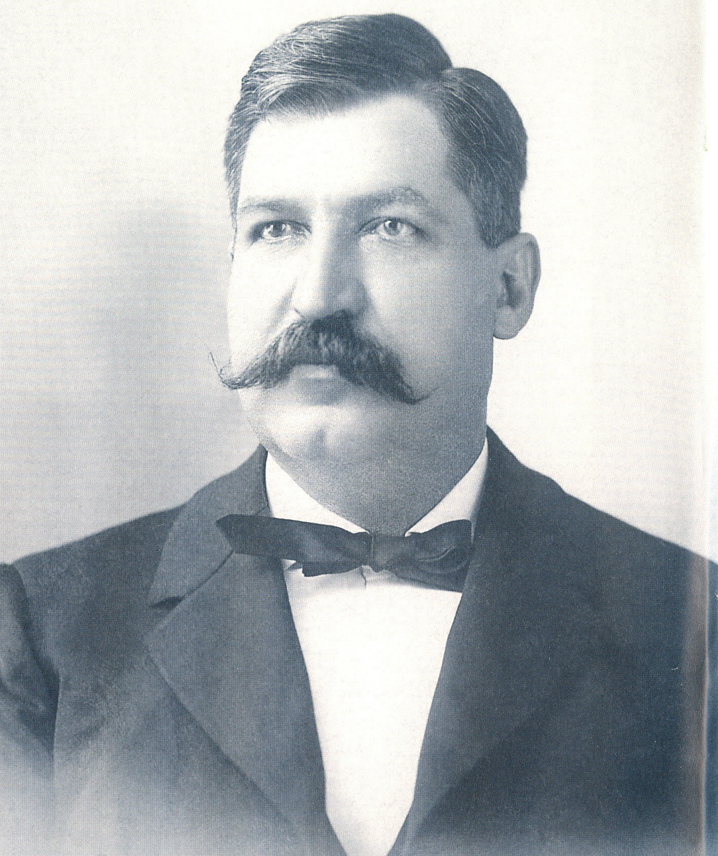 AGOSTINO LUIGI DEVOTO